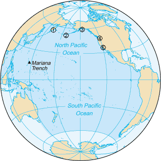 Sea otter map: 1-Kamchatka, 2-Amchitka Island, 3-Prince William Sound, 4-Vancouver Island, 5-Big Sur.